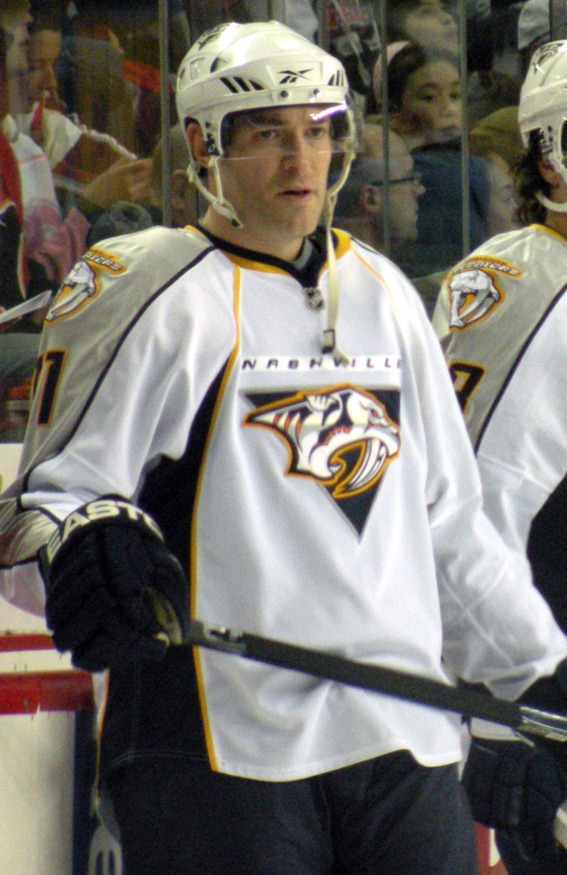 Nashville Predators forward JP Dumont prior to a National Hockey League game against the Calgary Flames.